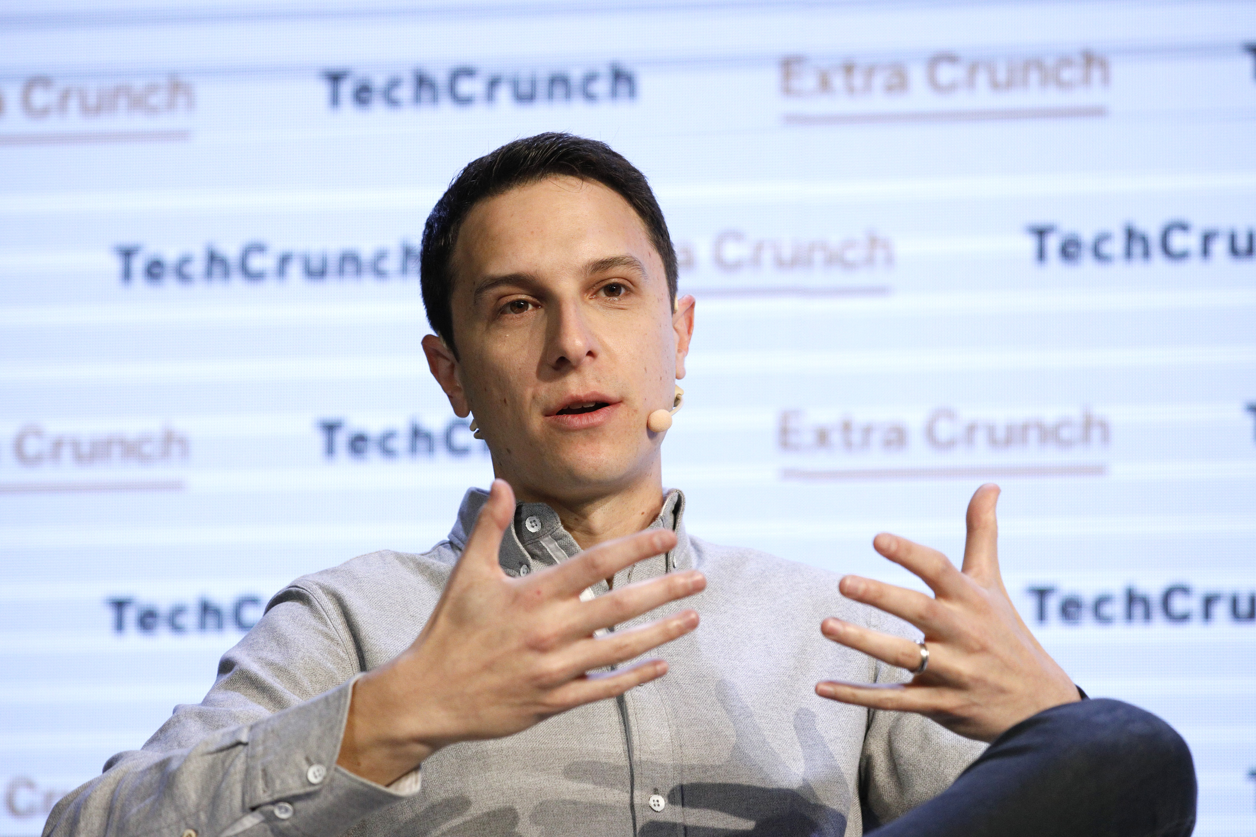 Instagram Product Director Robby Stein speaks onstage during TechCrunch Disrupt San Francisco 2019 at Moscone Convention Center on October 04, 2019 in San Francisco, California.